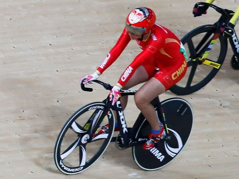 Zhong Tianshi in Rio 2016, Keirin